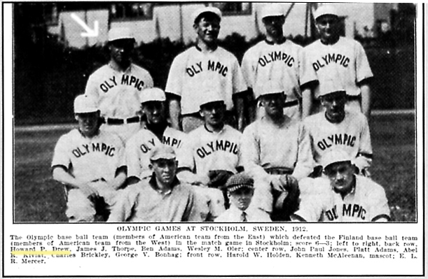 Newspaper clipping of baseball as a demonstration sport at the 1912 Summer Olympic Games in Stockholm, Sweden